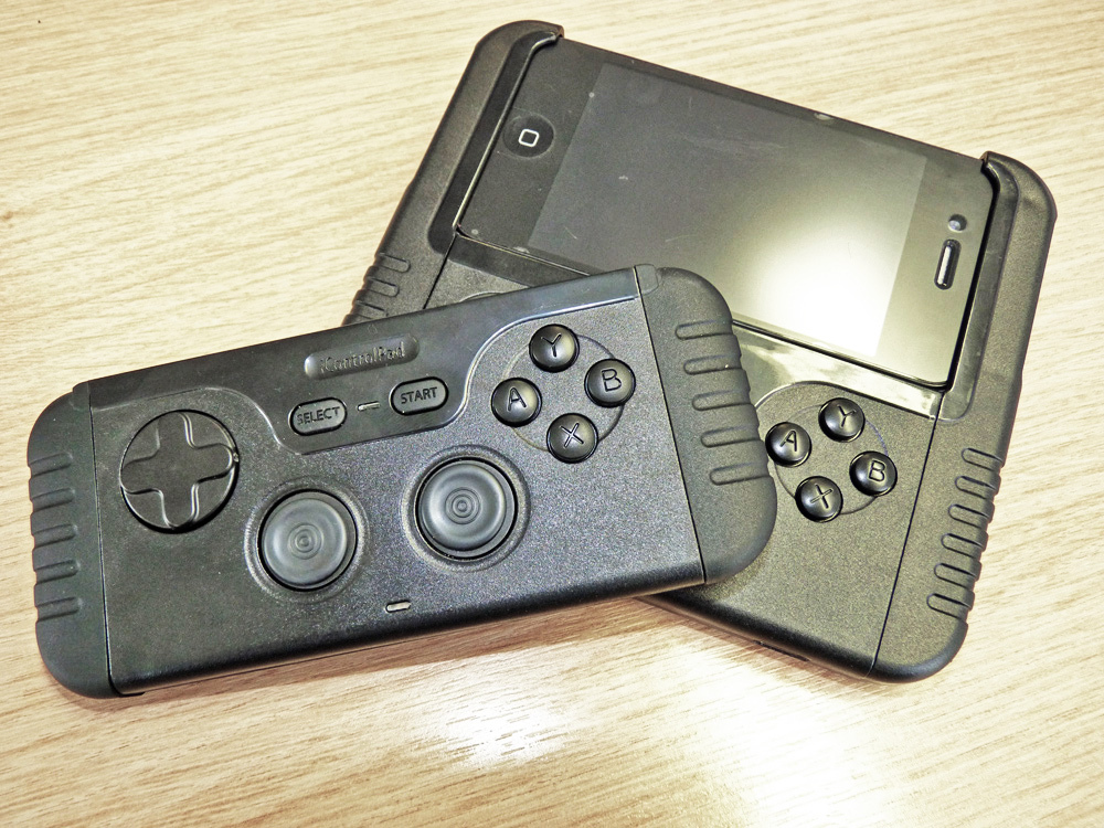 The iControlPad in its two forms- rubber end-caps for use with an iPad or computer, and plastic clamps for attaching to a variety of smart-phones.